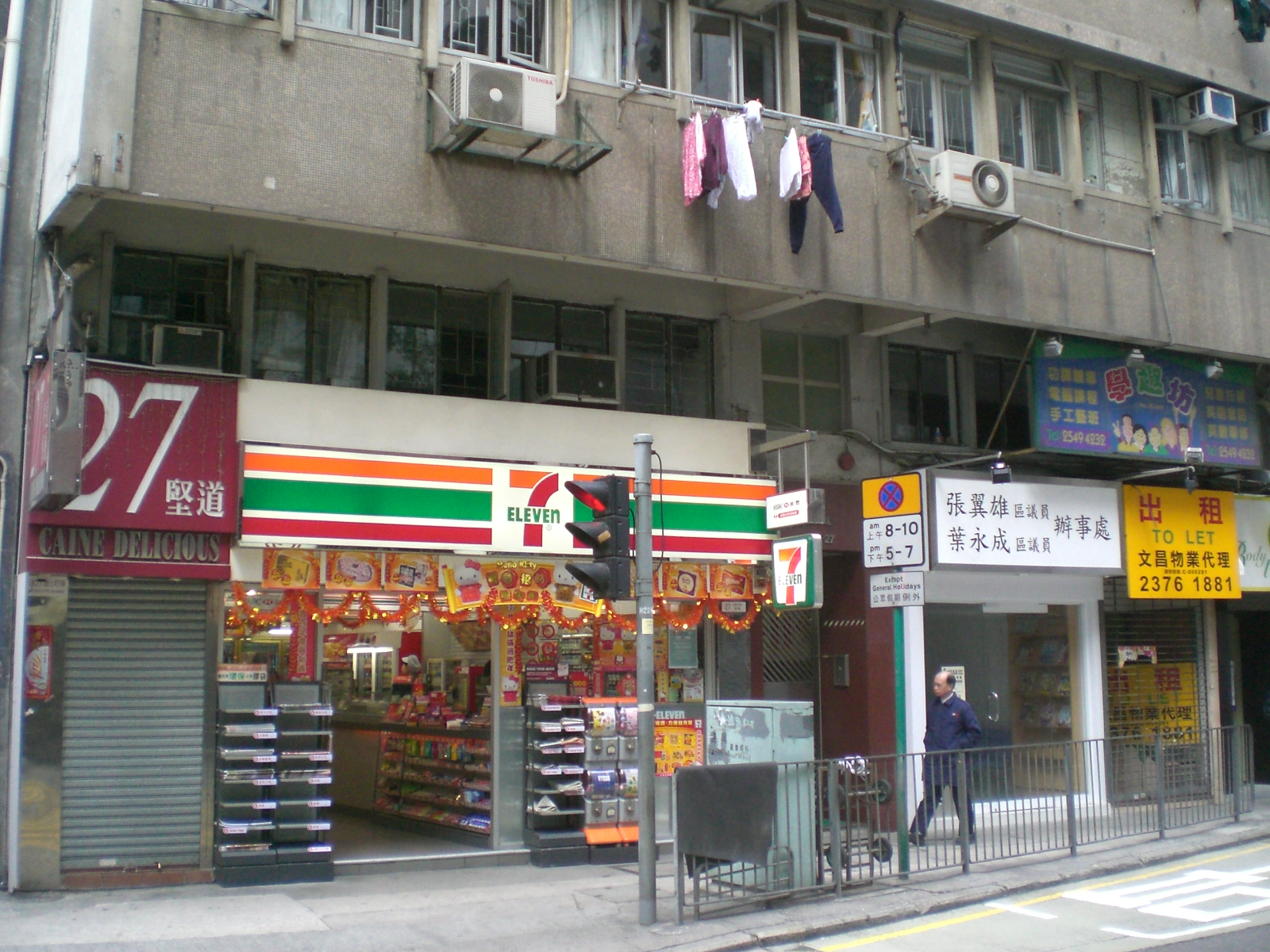 Description= 堅道 Caine Road Hong Kong Source= self-made Author= JackieCheu